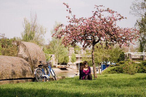 Biking near Bega River in Timisoara, Romania